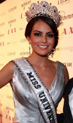 This is a picture of Michael Wildes with Jimena Navarrete, taken in 2010.